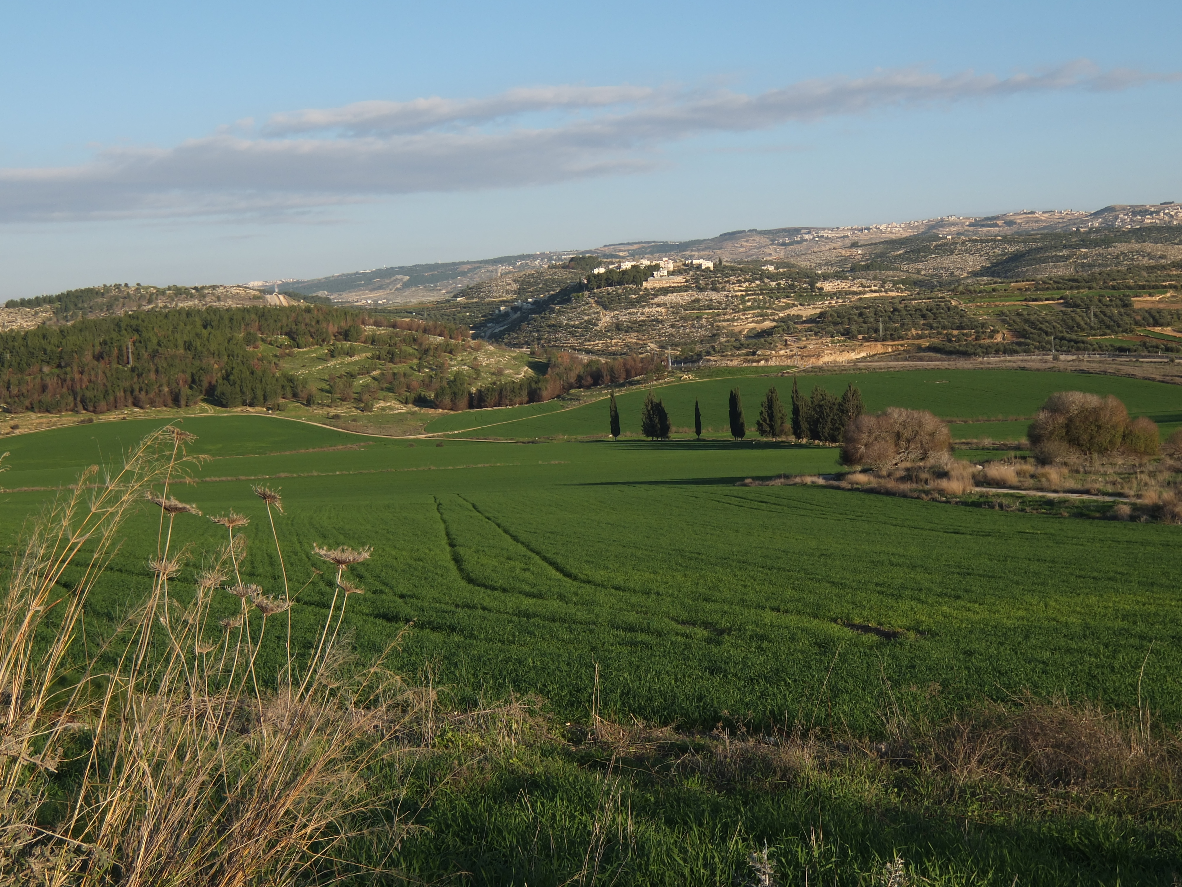 Photo of Elah Valley near the ruin of Adullam, taken 28 December 2014